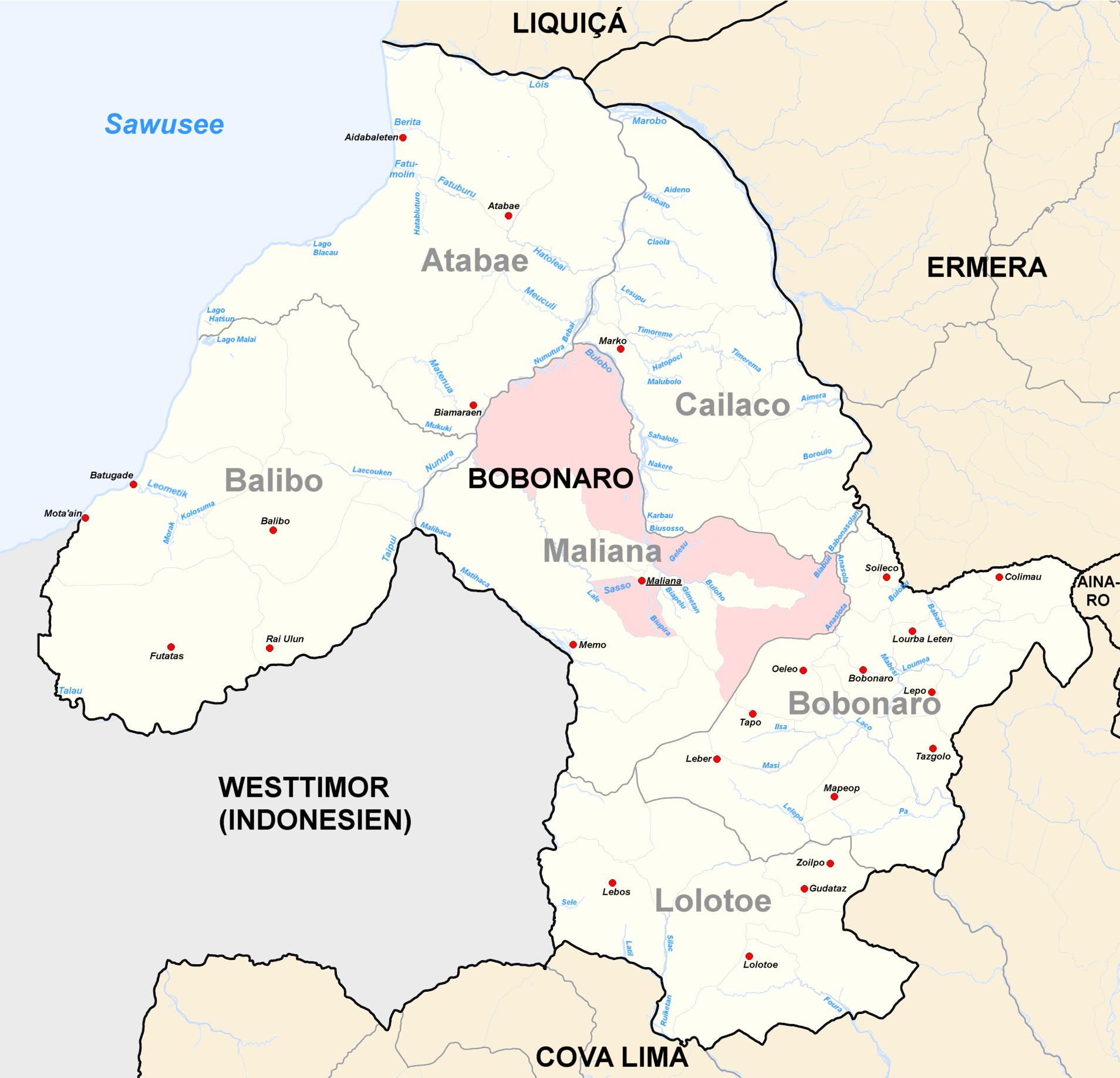 Cities and rivers of district of Bobonaro (East Timor). Urban sucos in pink.